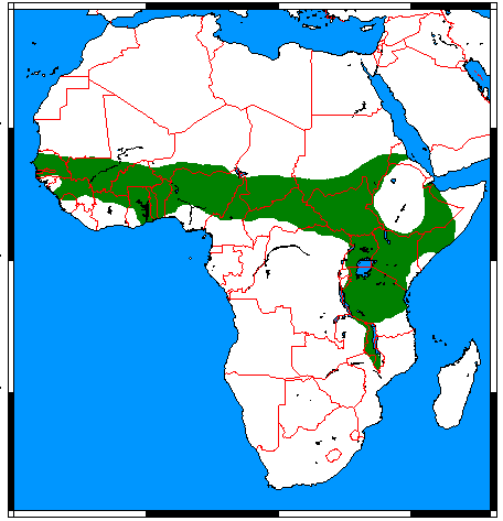 Range map for Four-toed Hedgehog (Atelerix albiventris), made by me with help of Map depending on the range map at IUCN red list.